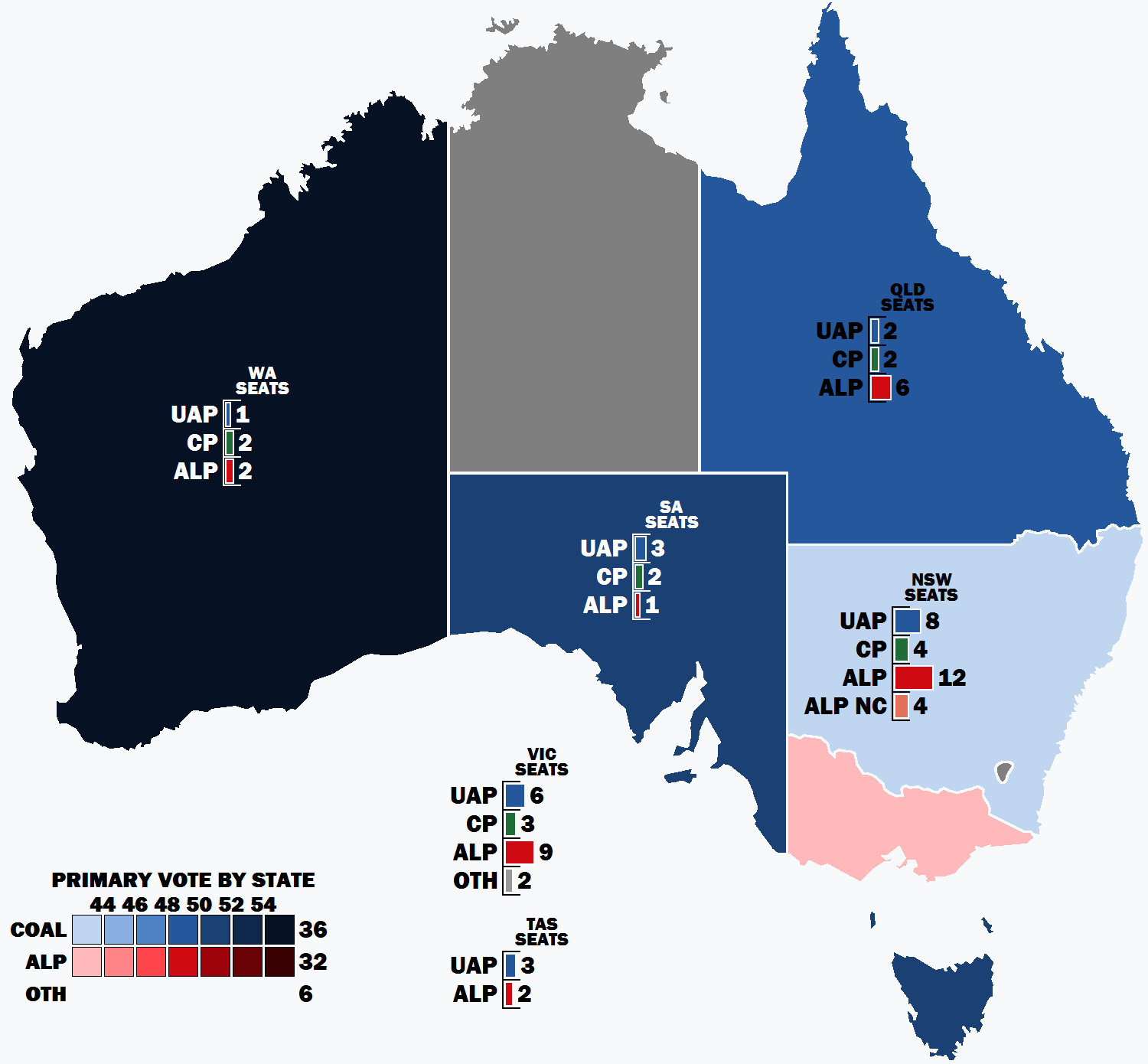 Result of the primary vote by state in the 1940 Australian federal election.